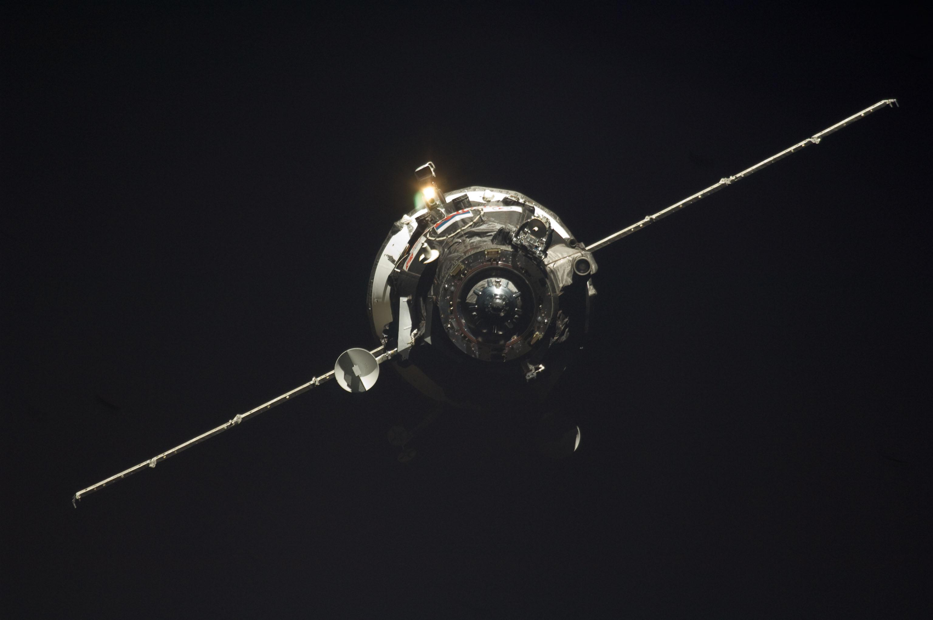 Progress M-65 seen from the International Space Station